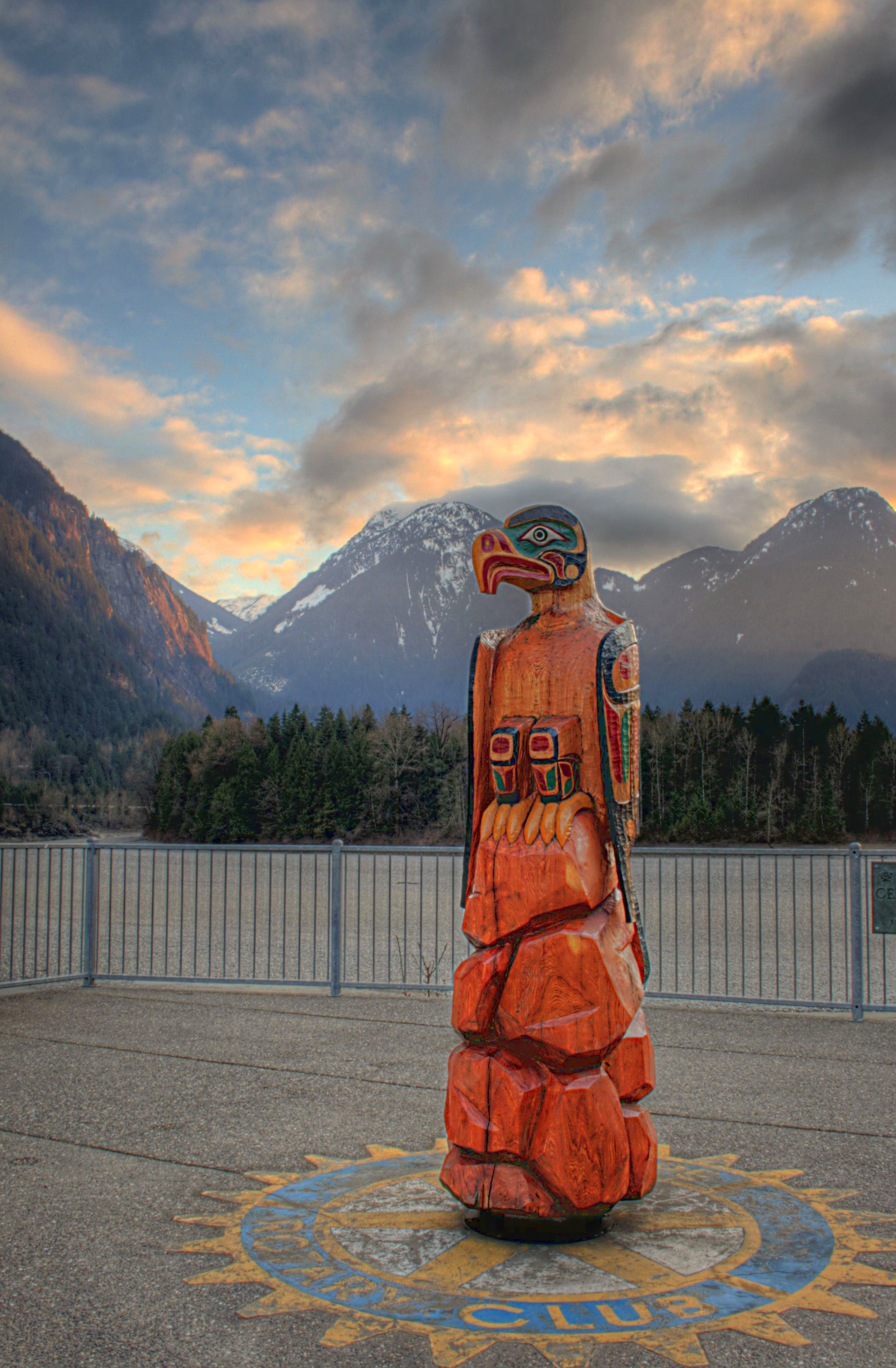 Totem pole in downtown Hope, British Columbia, Canada.